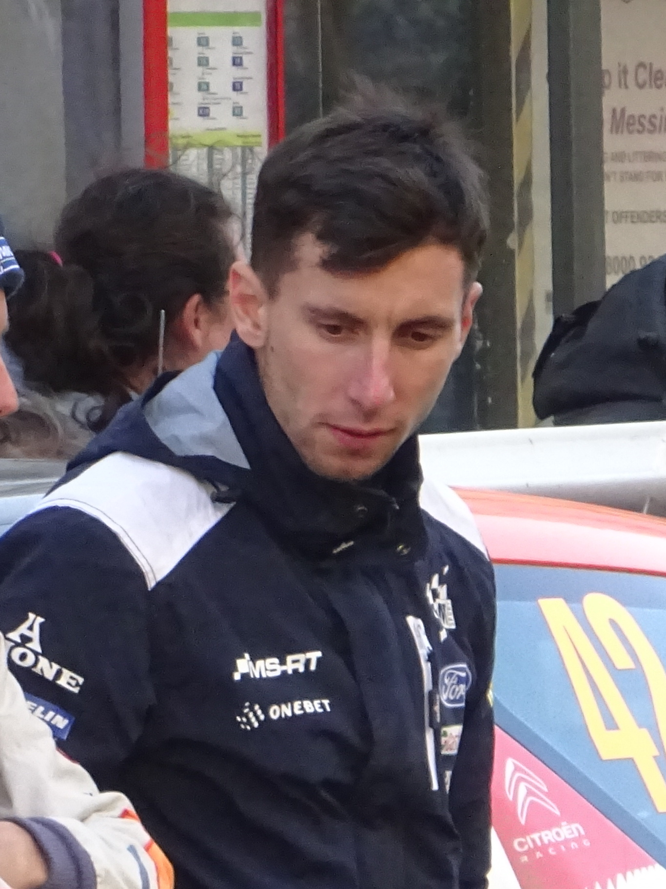 Wales Rally penultimate round of the World Rally Championship, Llandudno 2012.